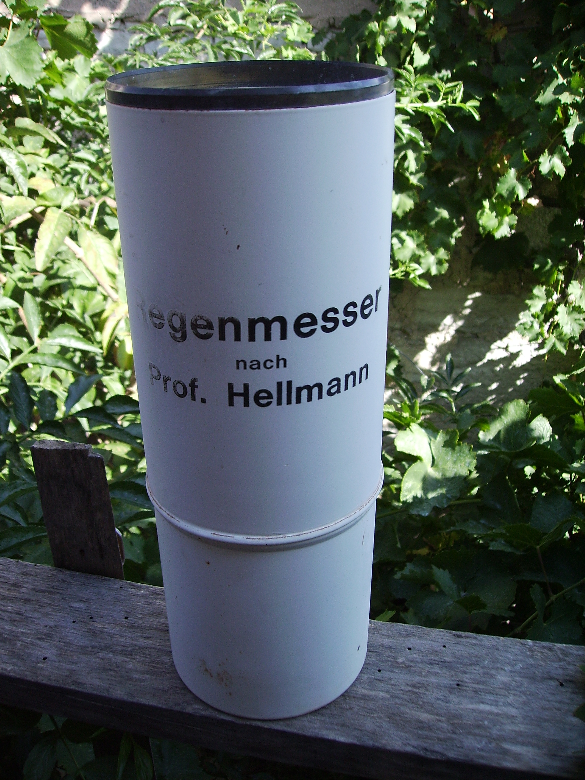 Rain gauge Hellmann type, Castelltallat, Catalonia